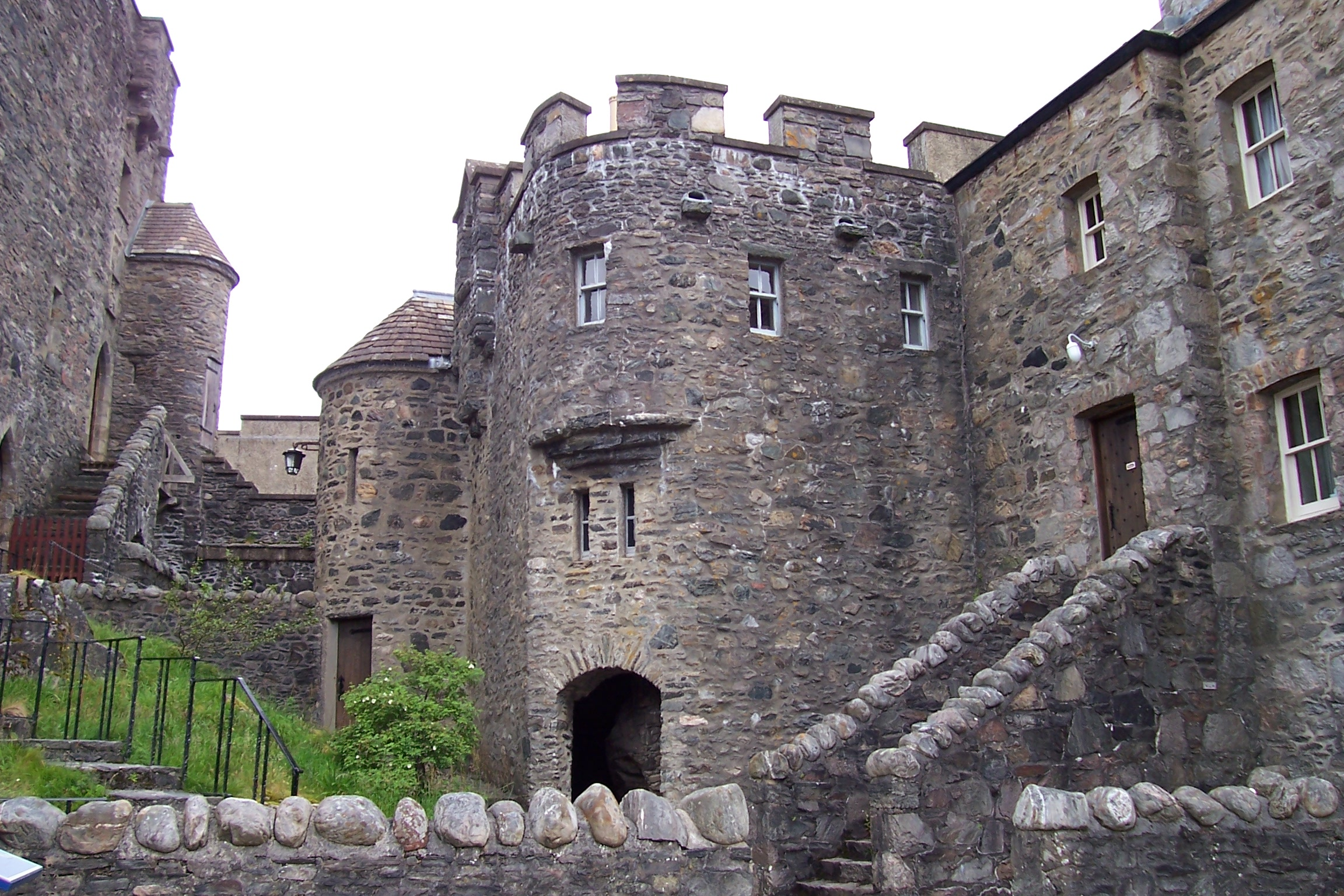 View from inside the grounds of Eilean Donan castle, in the Scottish Highlands.